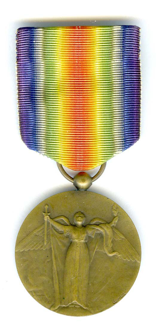 Interallied Victory Medal of WWI (Cuba)